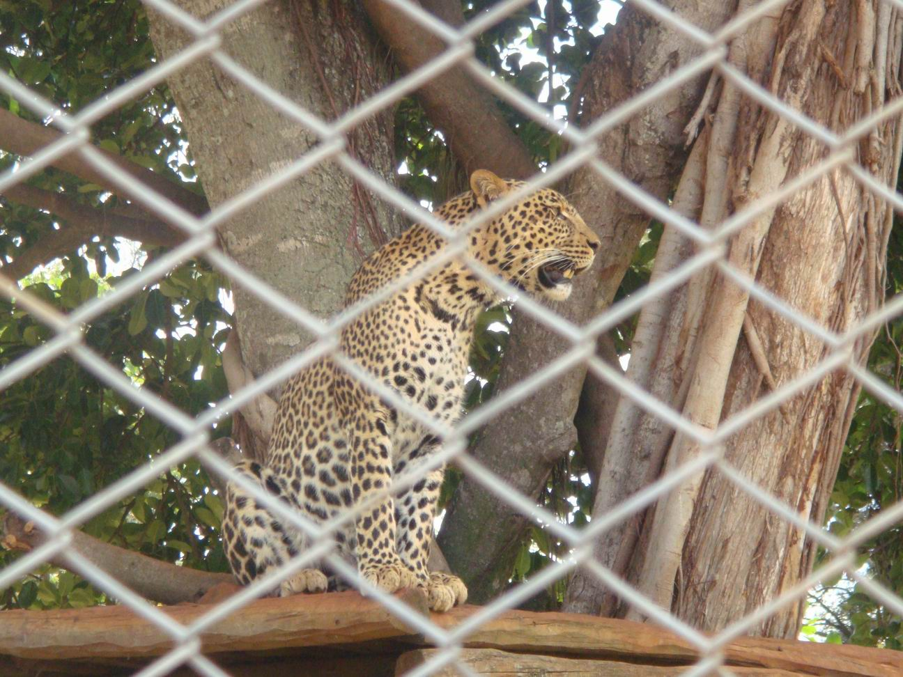 Leopard in cage, Nairobi National Park, Kenya